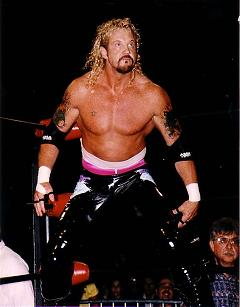 Owner of photo: Diamond Dallas Page Source: Received directly from owner Permissions to use this, and other, photos is on file with 19:48, 20 July 2007 (UTC) creative commons Attribute + Share-alike. Some rights reserved code